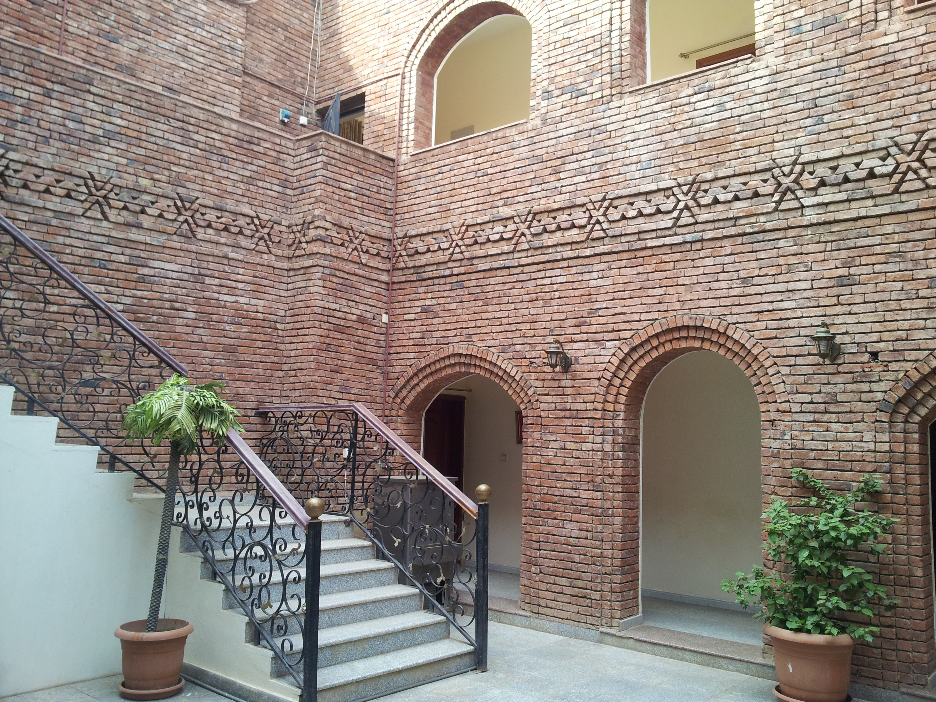 courtyard at house in yemen